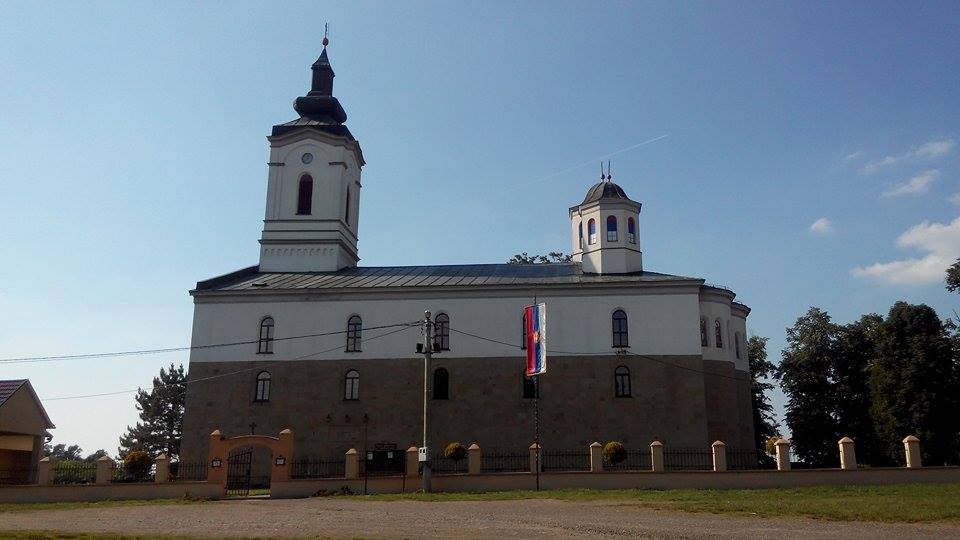 Crkva u Obudovcu